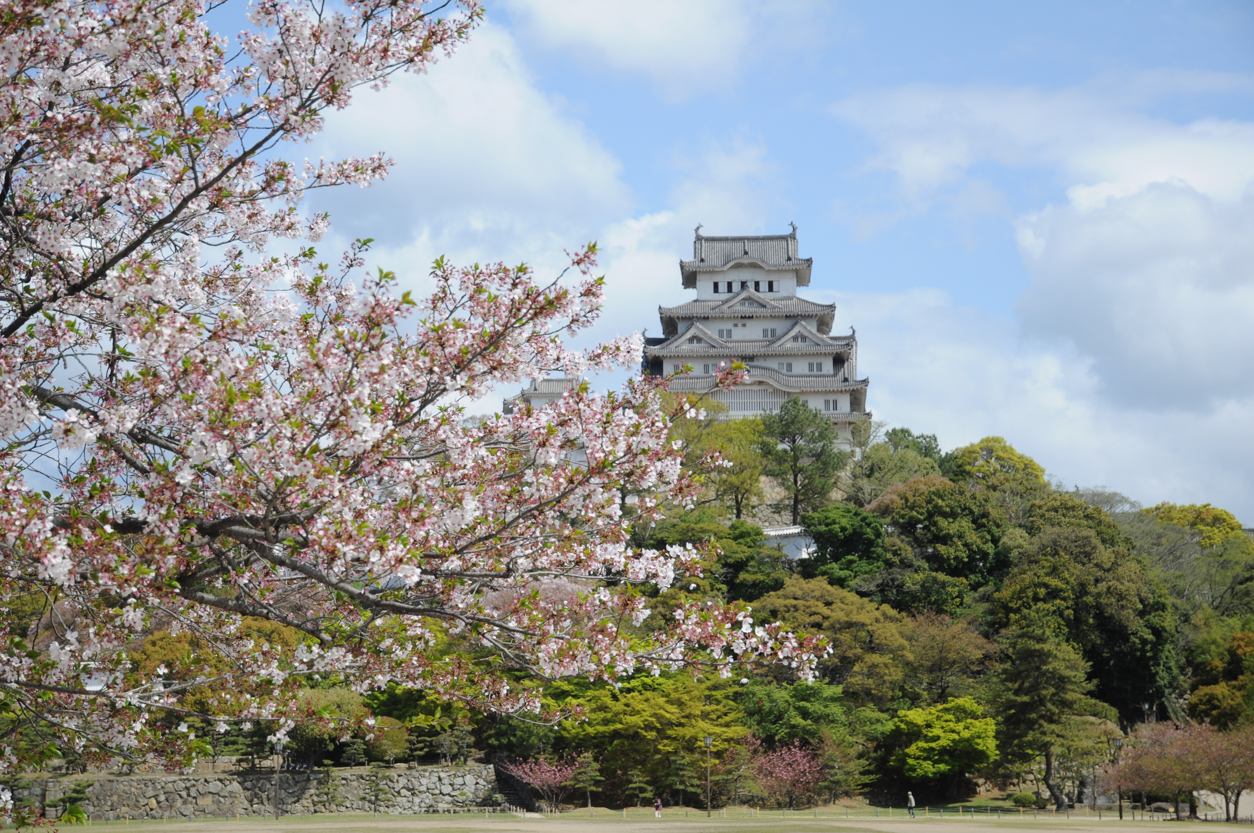 Himeji Castle, amidst cherry trees in full bloom.